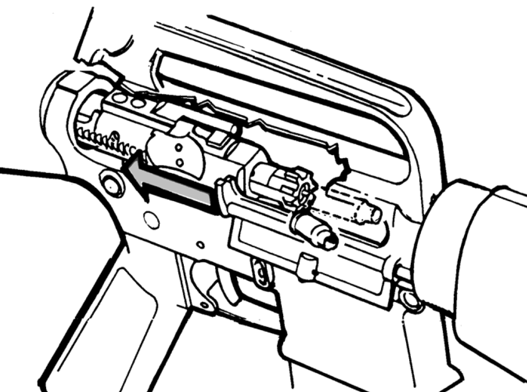 M16 cartridge case ejecting diagram